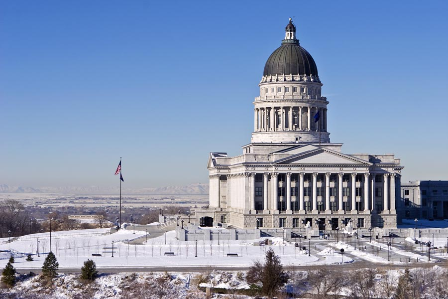 Side view of the Utah State Capitol and Capitol Hill, looking west.